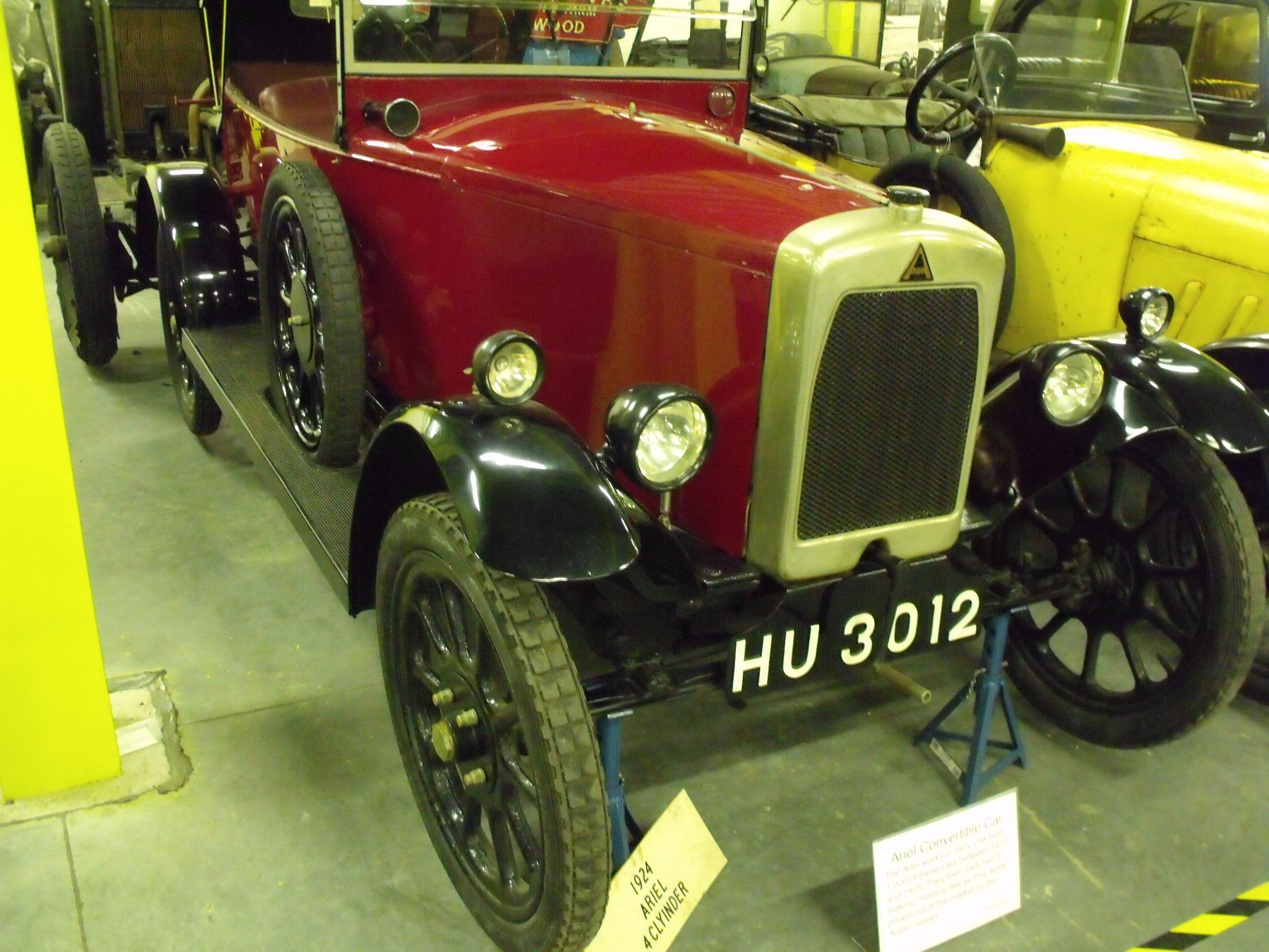 I went to the Open Day at the Museum Collections Centre - 25 Dollman Street on the 13th of May 2012. At the Dollman Street Stores they have objects that are not currently on display in the Birmingham Museum & Art Gallery or Think Tank. Some items used to be in the old Museum of Science & Industry on Newhall Street. The garage area of the warehouse with old cars, motorbikes etc. Ariel Convertible Car The Ariel works in Selly Oak built 1,000 of these cars between 1923 and 1925. They then switched to making motorcycles as they were priced out of the market by the Austin Seven.